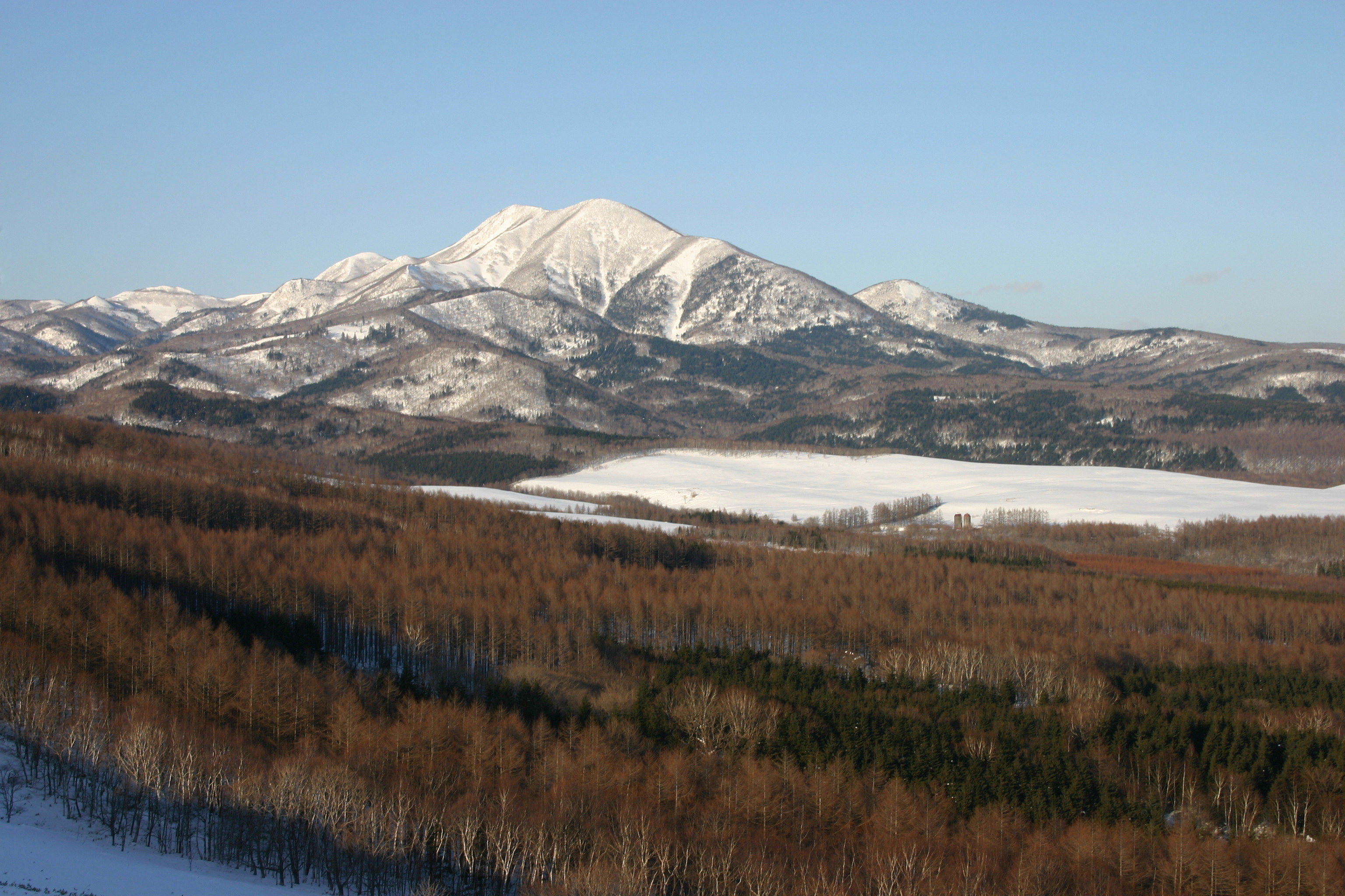 South side of Mounr Musa as seen from the Kaiyodai Lookout.